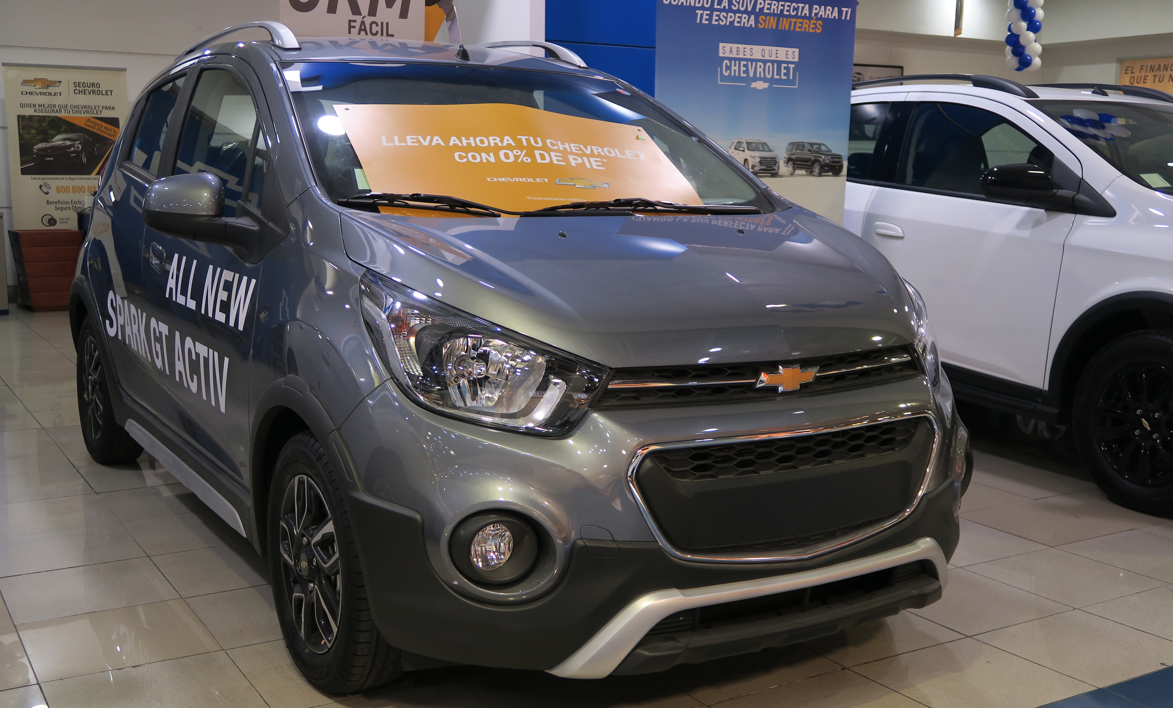 Chevrolet Spark GT Activ in Chile